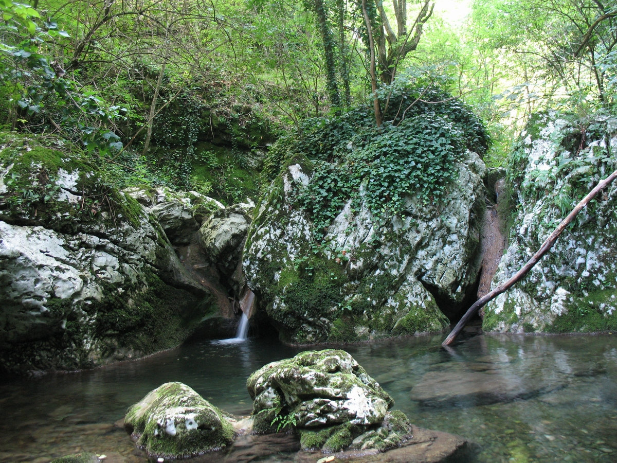 Vratna river on Veliki Greben mountain, Serbia.